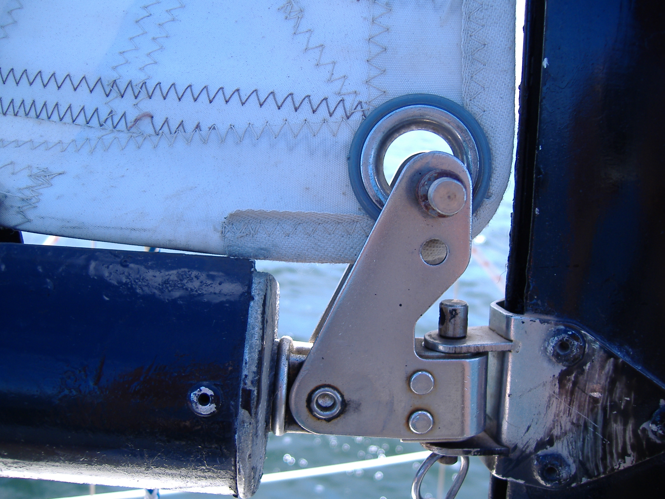 A gooseneck swivel connection holding the boom to the mast on a typical small yacht.